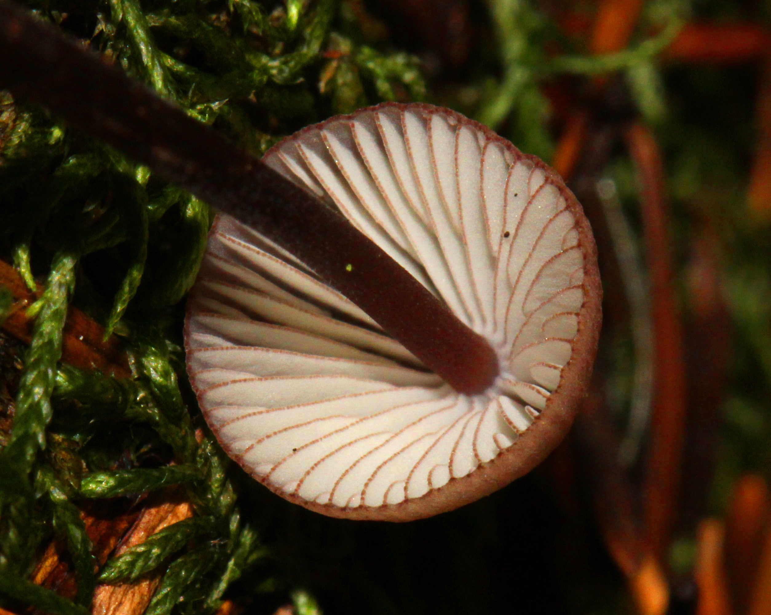 The gills of the agaric fungus Mycena purpureofusca (Peck) Sacc. Specimen photographed in Teague Hill Open Space Preserve, San Mateo Co., California, USA.